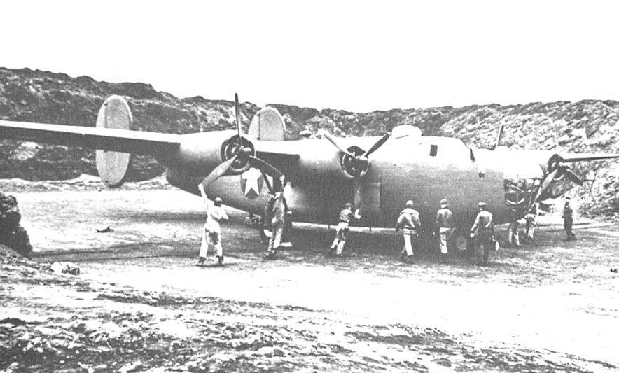 404th Bombardment Squadron B-24 Aleutians 1942 This picture is also identified as a plane of the 36th Bombardment Squadron.